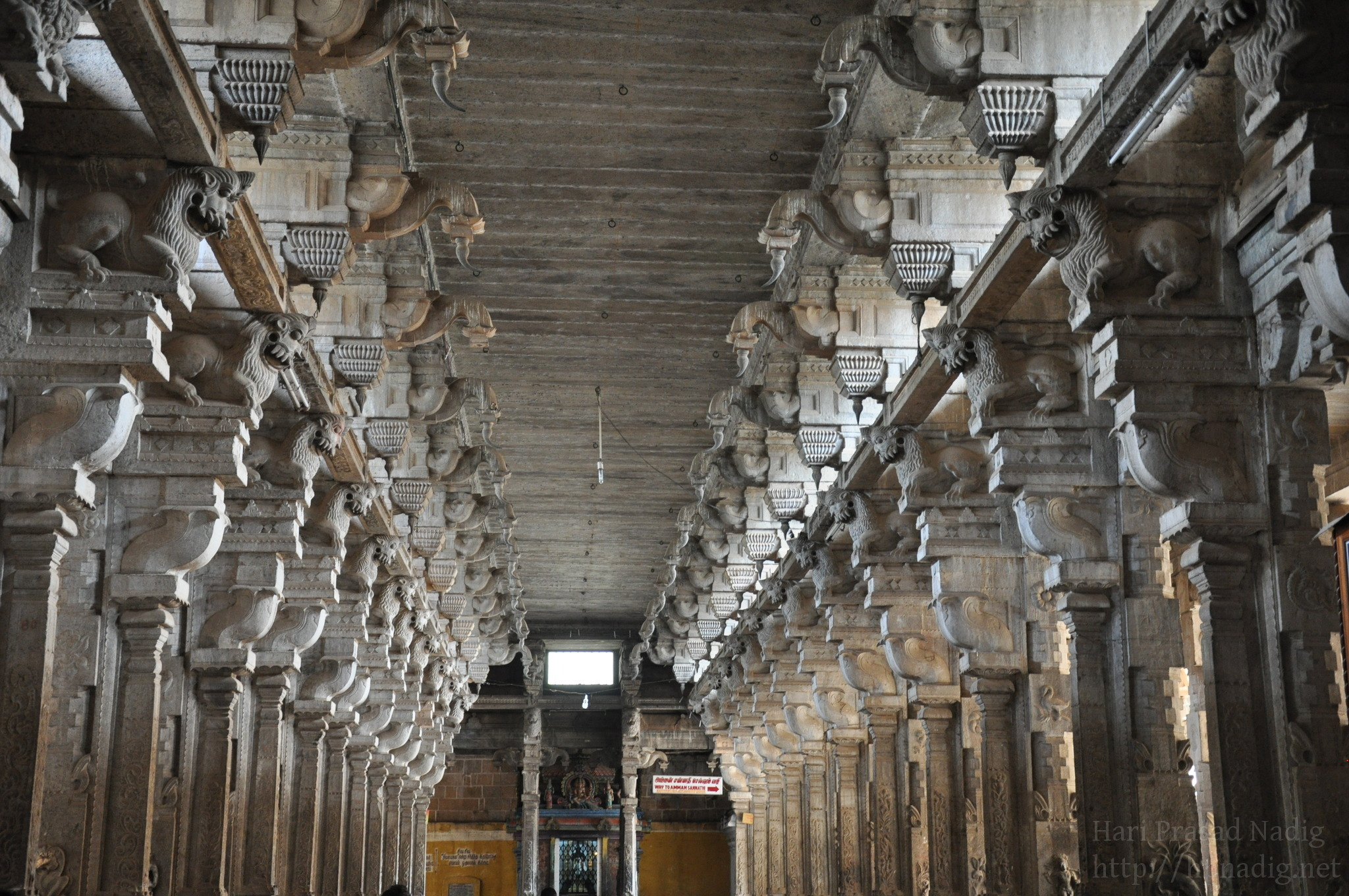 The magnificient architecture seldom is the highlight of things for Hindu devotees visiting this temple in Srirangam. But if someone has ample time to explore the work of art that hasn't even neglected the minute of details would find a plethora of interesting stuff.